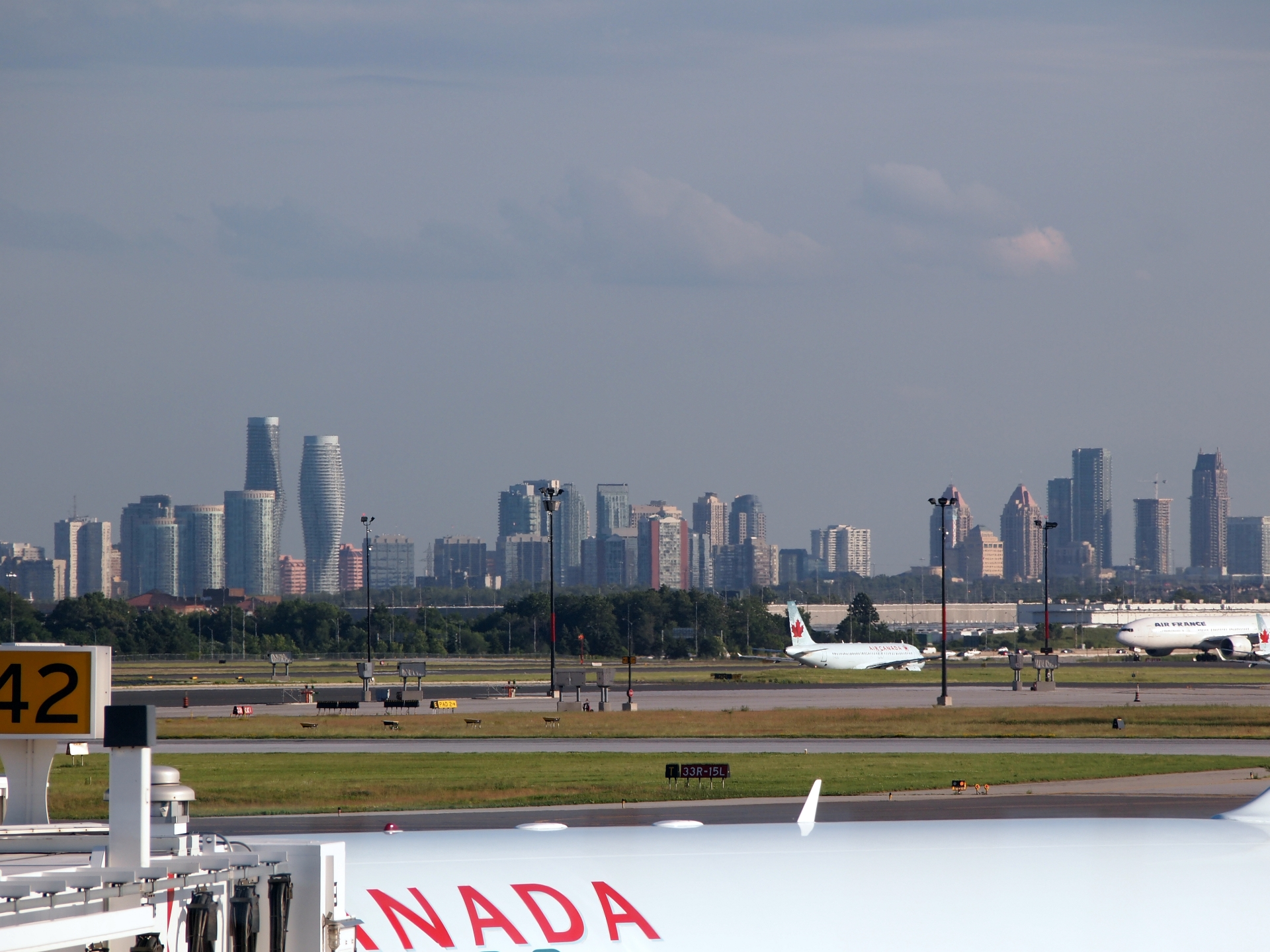 A view of Mississauga Skyline from the Pearson International Airport.